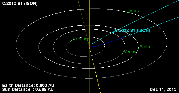 The position of the comet C/2012 S1 (ISON) at the time of best visibility in the northern hemisphere: December 11, 2013.